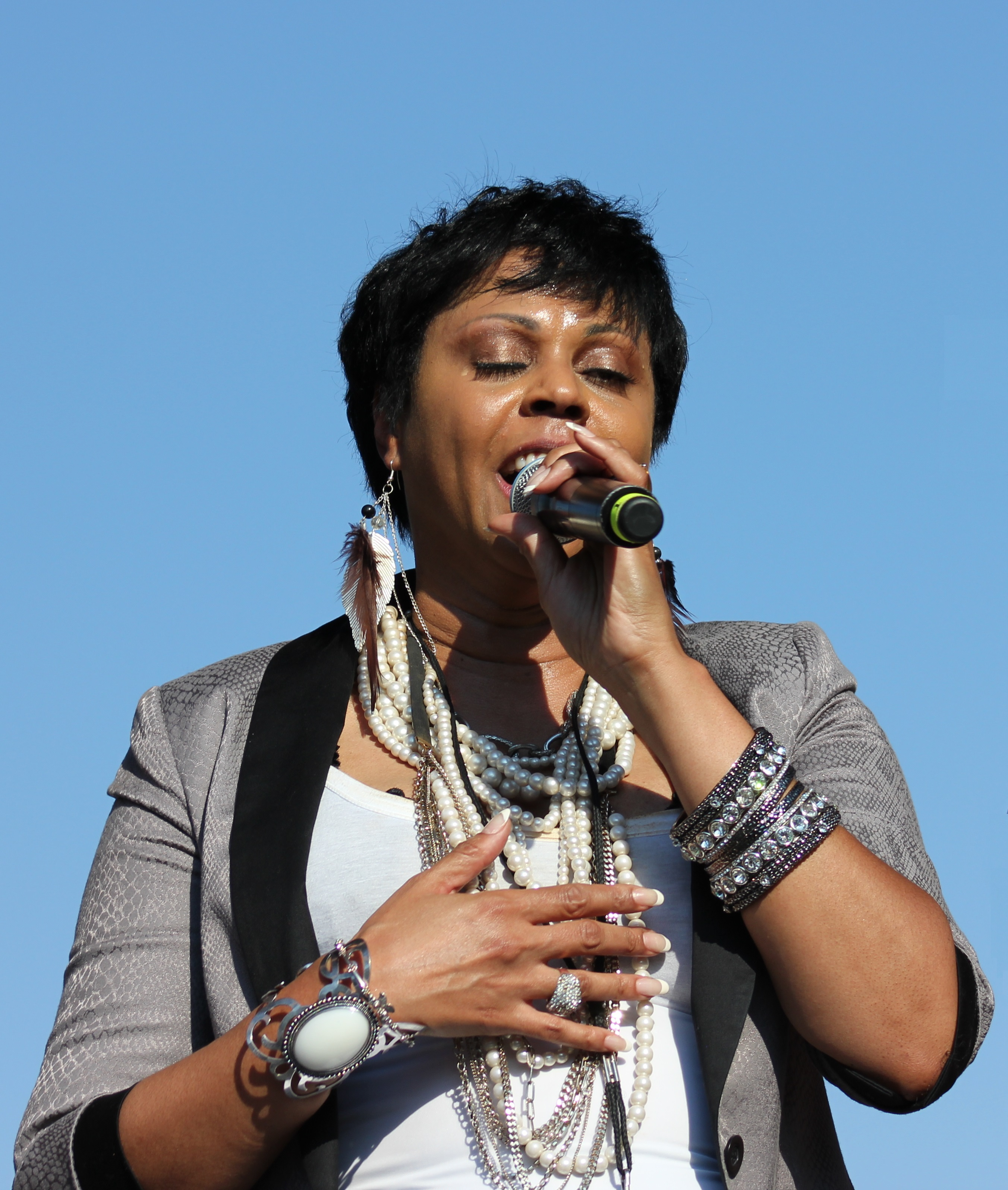 Crystal Waters performing live during the 37th Capital Pride Festival at the Main Stage on Pennsylvania Avenue and 3rd Street, NW, Washington DC on Sunday afternoon, June 10, 2012